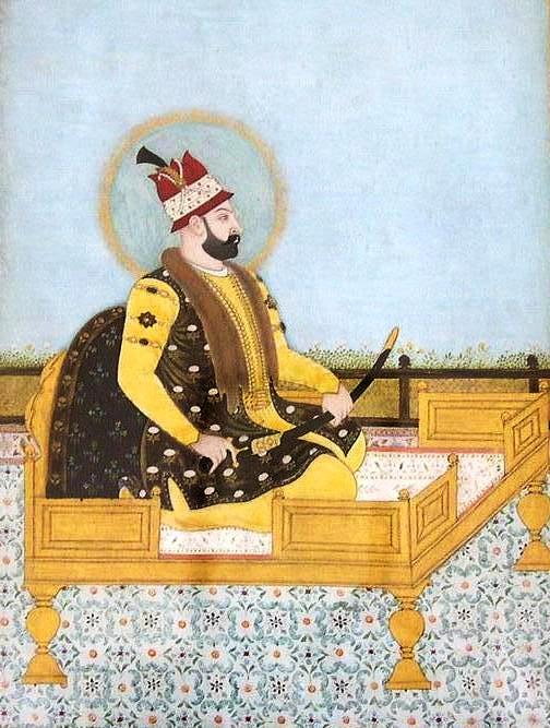 Nader Shah Afshar